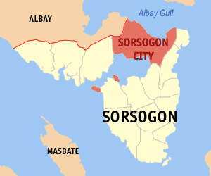 Map of Sorsogon showing the location of Sorsogon City